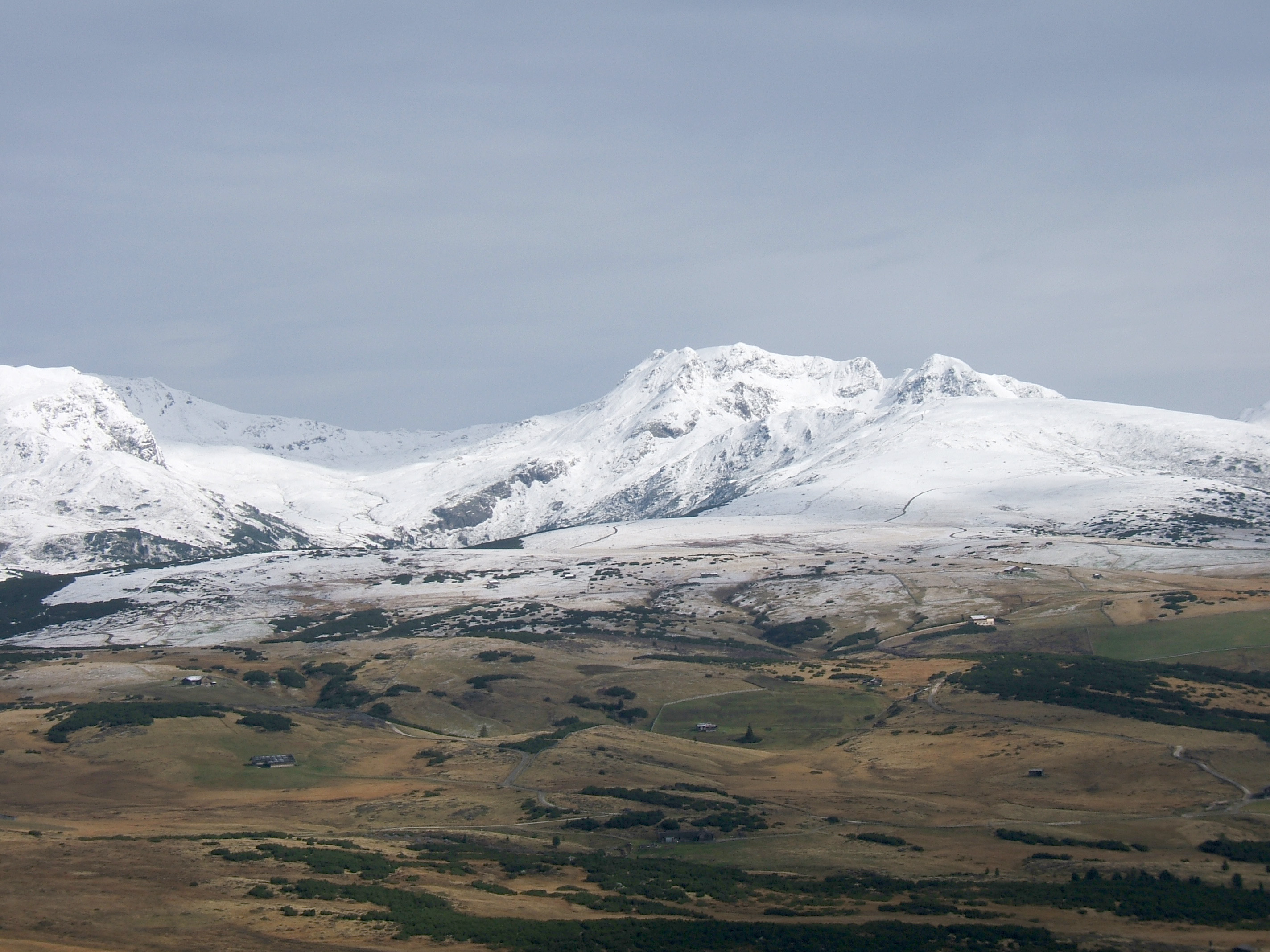 Kassianspitze from Southwest, from the Villanderer Alm, South Tyrol